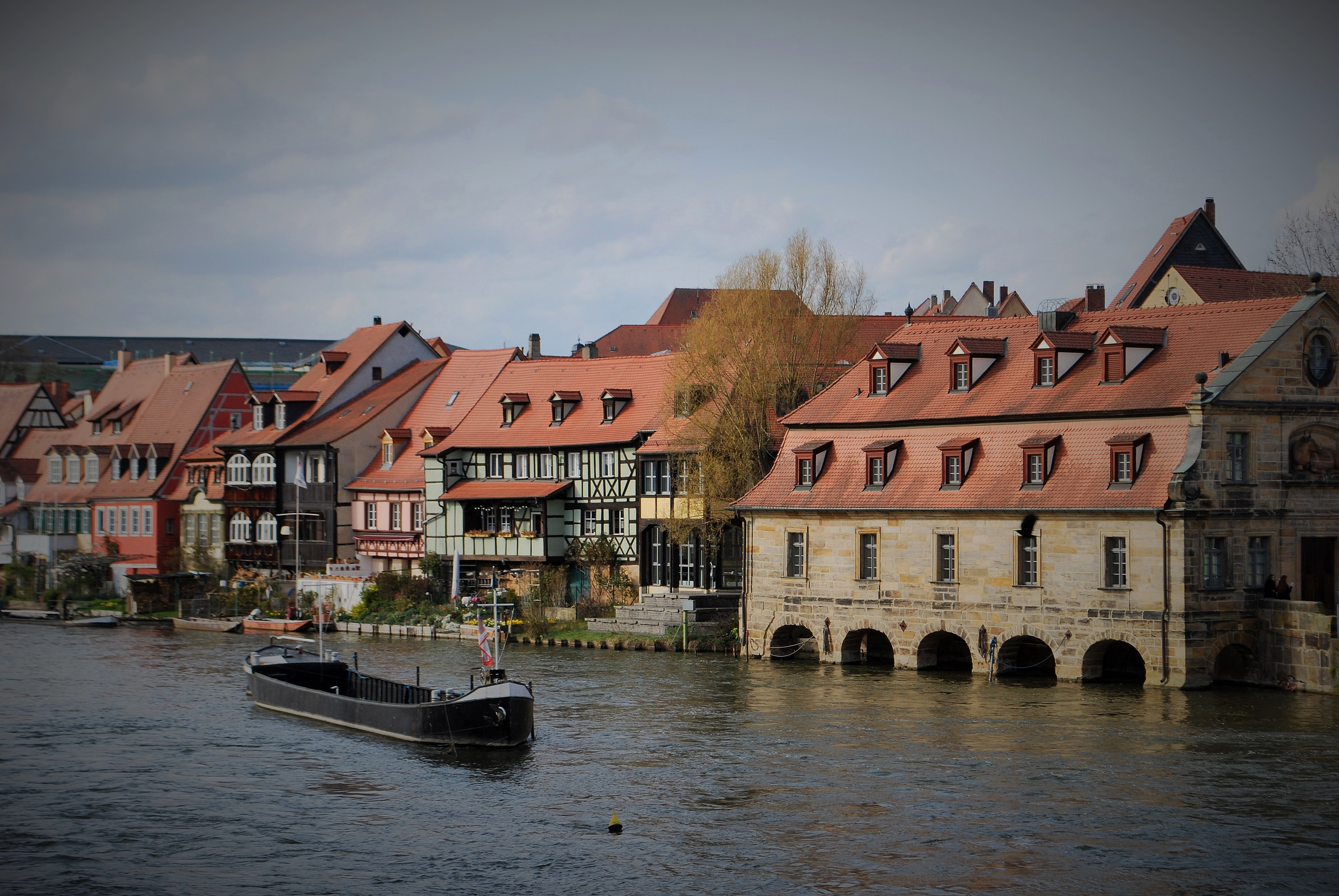 "Little Venice", Bamberg